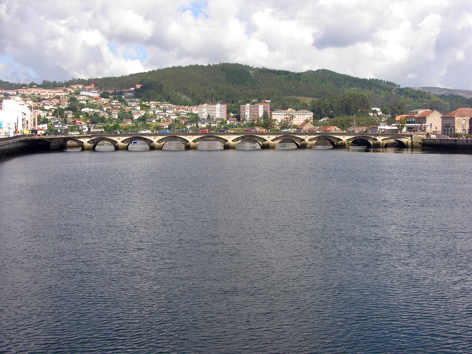 Bridge in Pontevedra, Galicia, Spain